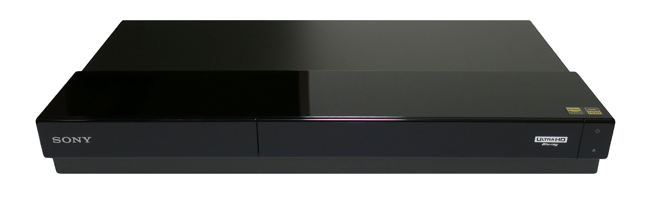 Sony Blu-ray Disc (UHD BD ready) / 1TB HDD video recorder BDZ-FT1000.